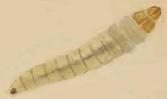 Stainton’s Natural History of the Tineina (1855–1873): Elachista gangabella